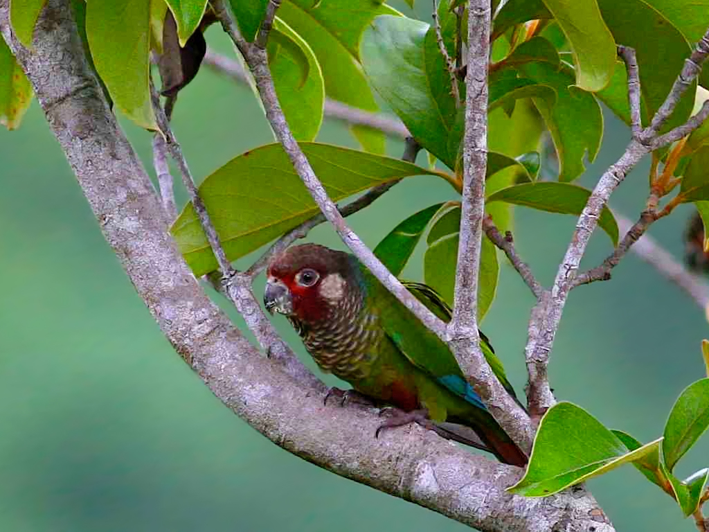 Azuero Parakeet (Panama endemic bird)